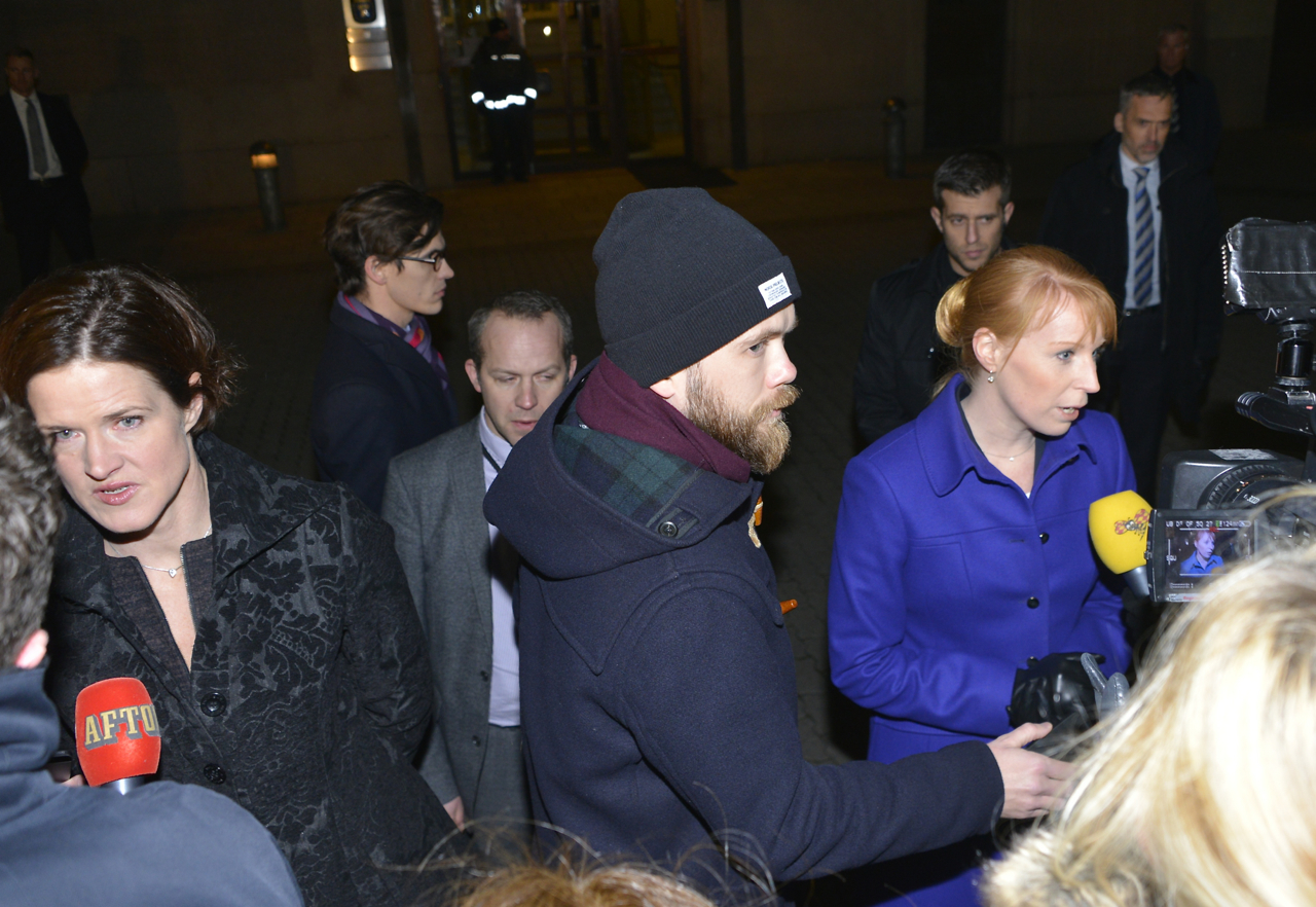 Alliance leaders invited to Rosenbad by Stefan Löfven after the Sweden Democrats earlier in the day said they vote for the alliance budget. Anna Kinberg Batra and Annie Lööf.